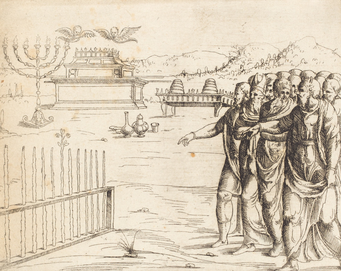 Aaron's rod blossoming, as in Numbers 17:23, etching by Augustin Hirschvogel before 1553; in the National Gallery of Art, Washington, D.C.